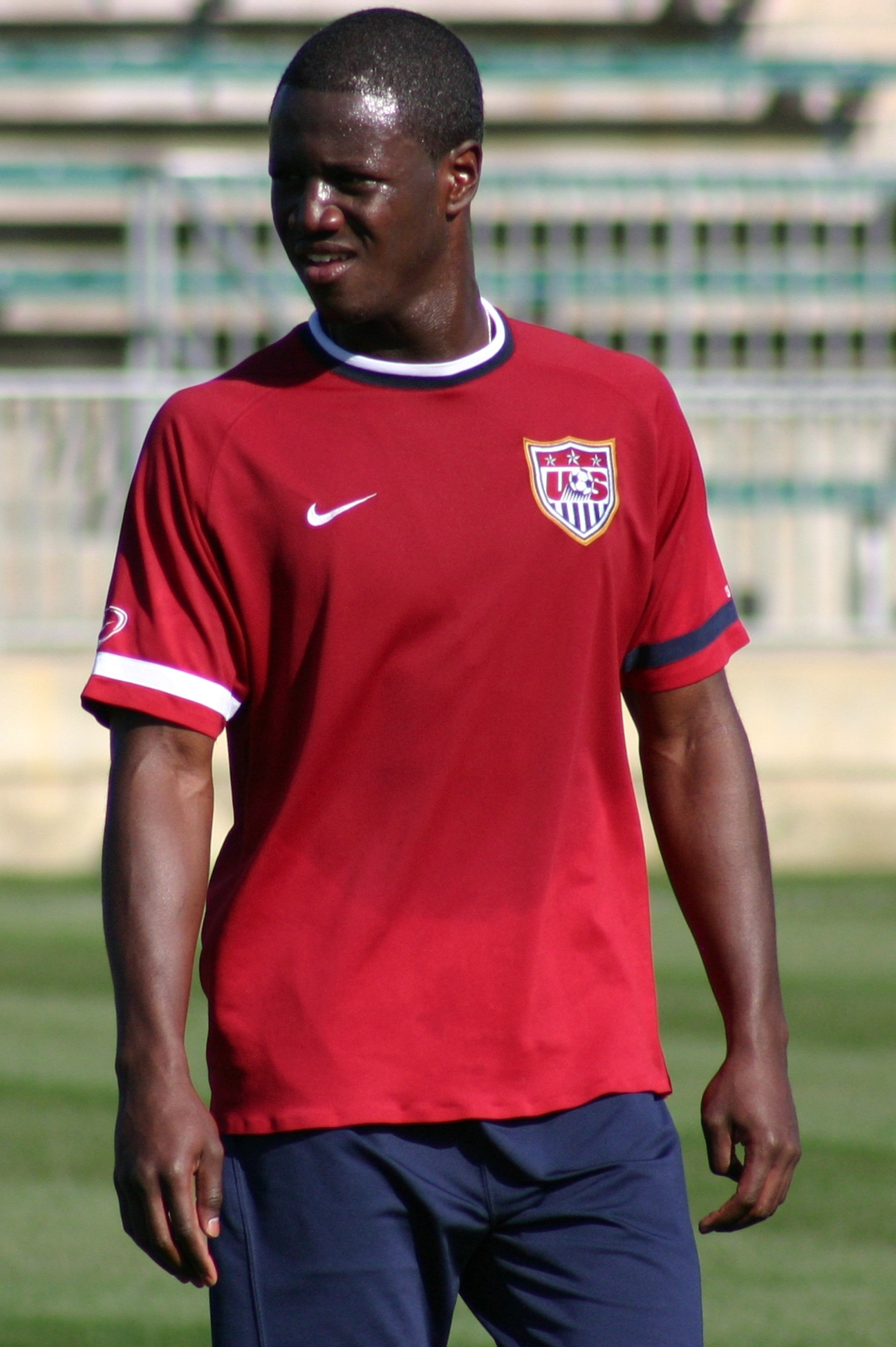 Eddie Johnson at the US Men's National Team practices